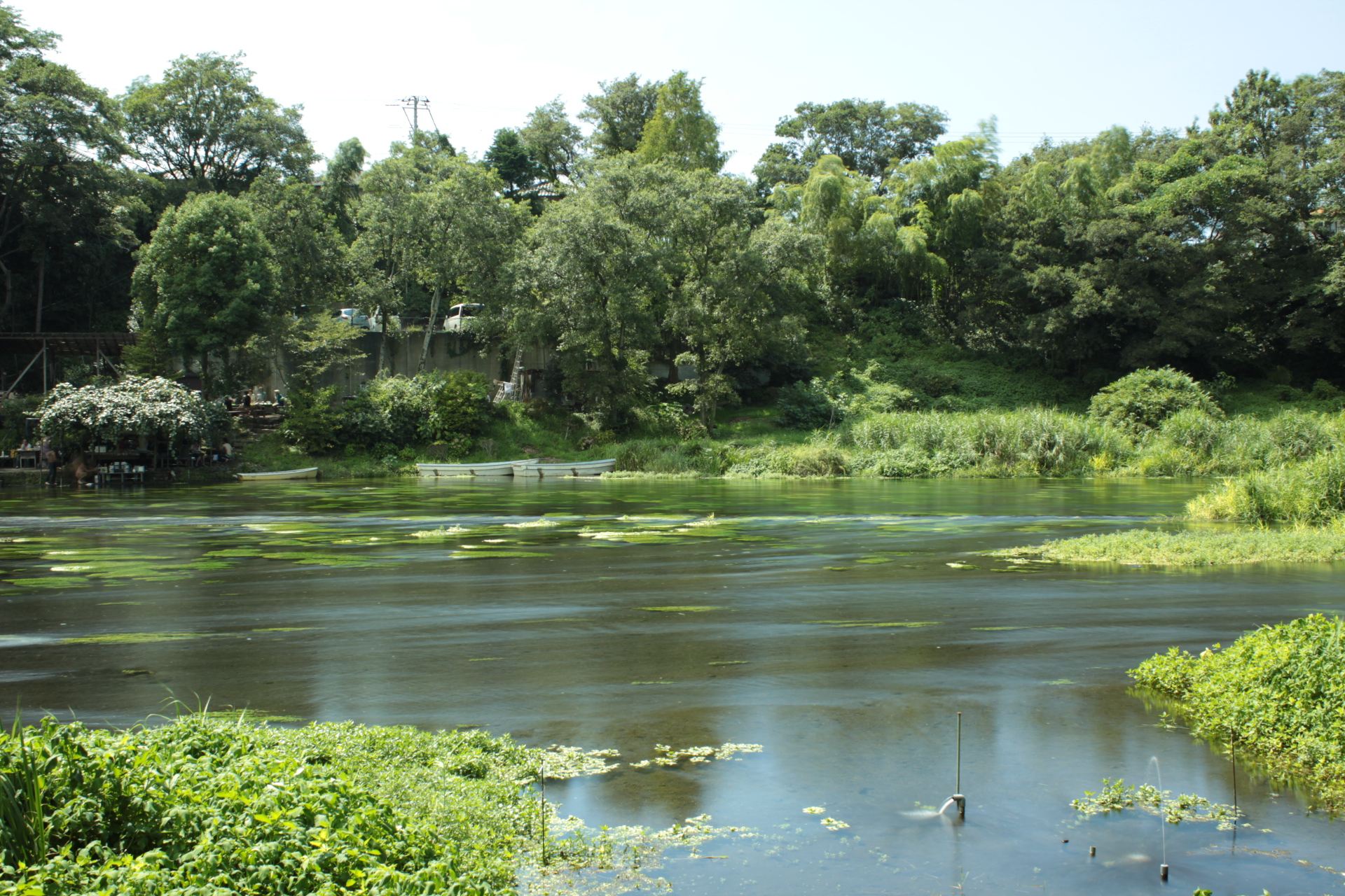 Kakita River in Shimizu, Shizuoka Prefecture, Japan. Taken from walkway.